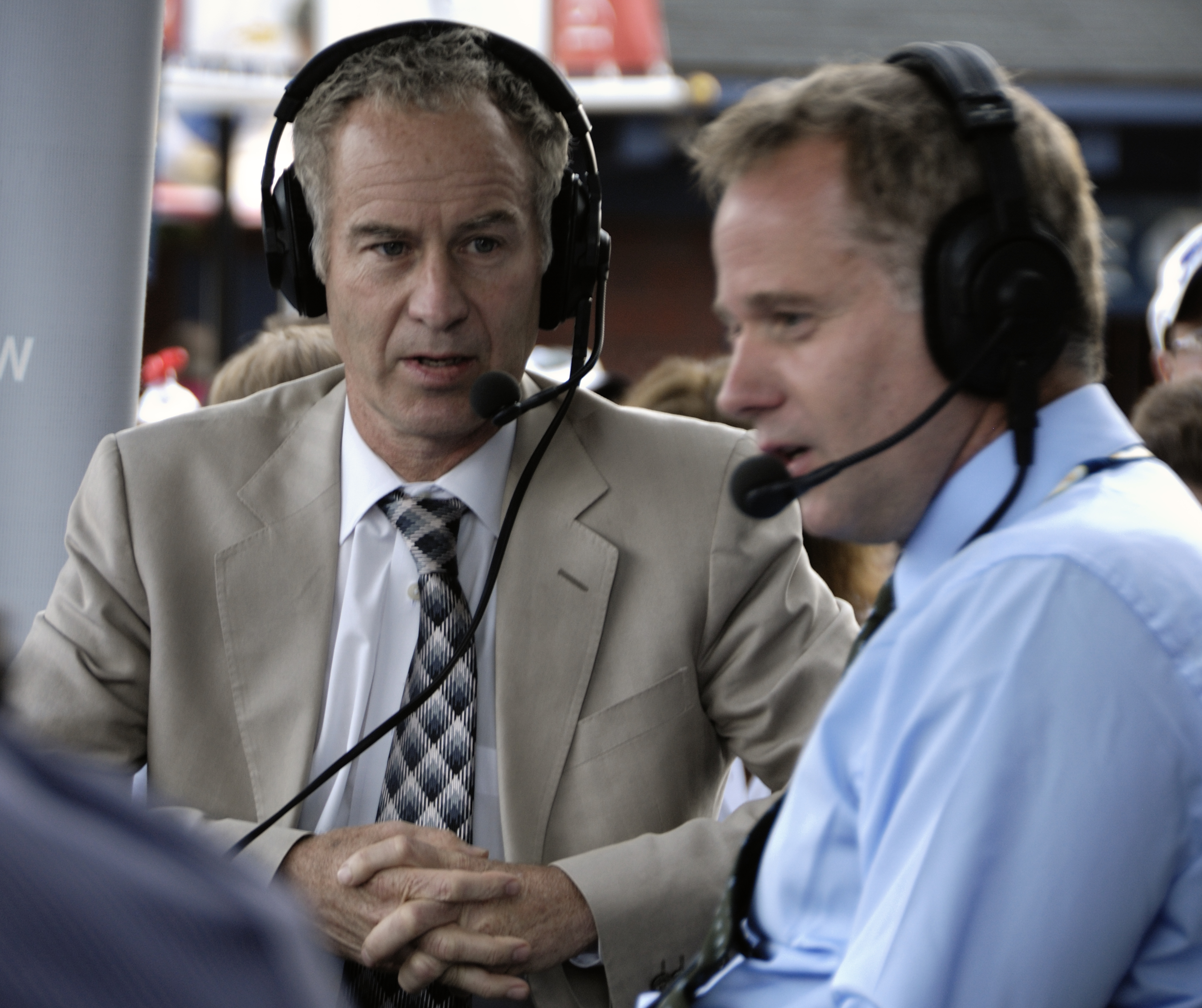 John and Patrick McEnroe at the 2009 US Open